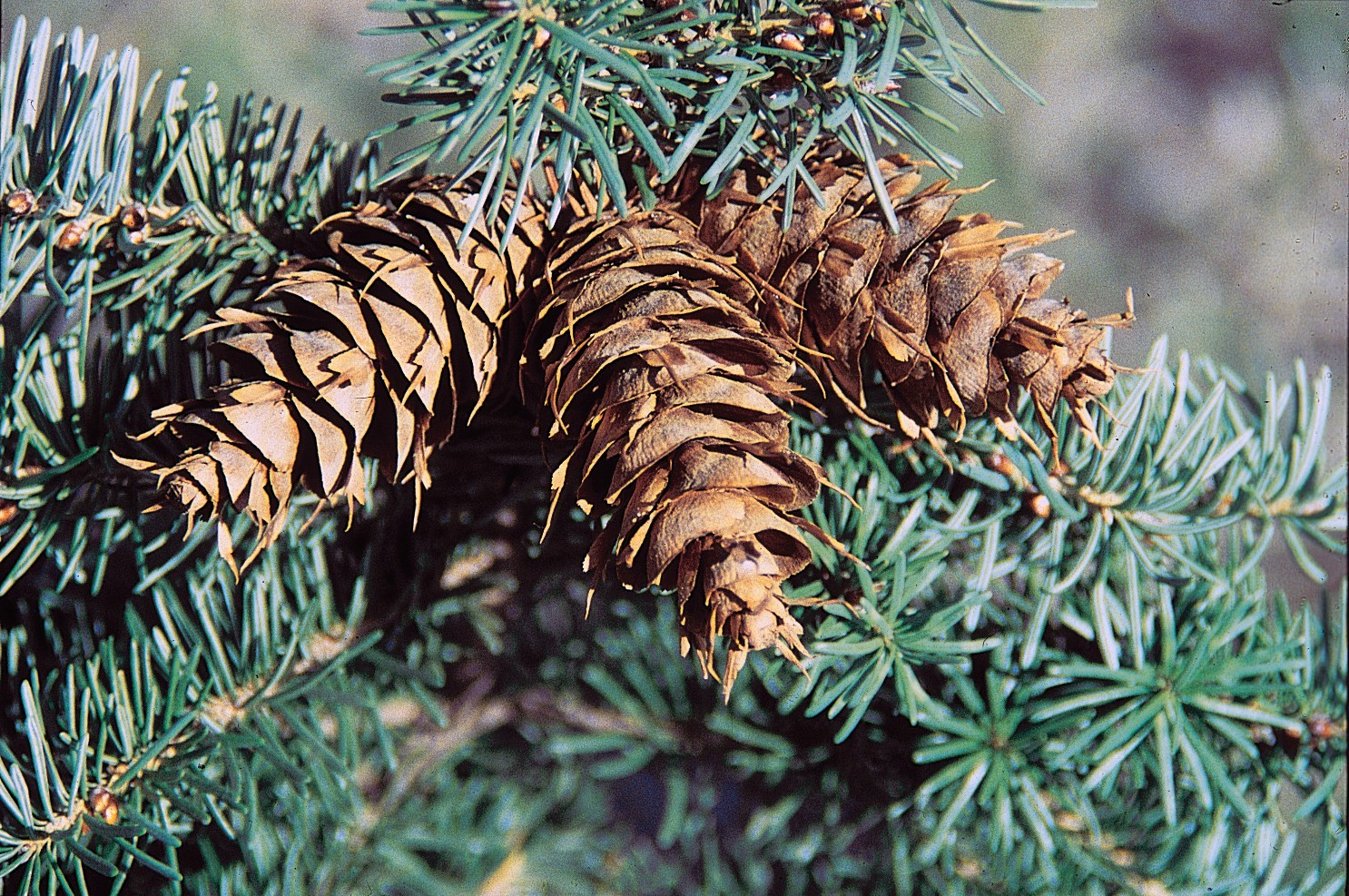 Rocky Mountain Douglas-fir. Cones.